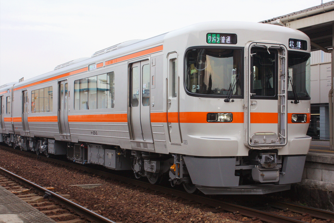 JR Central KiHa 25 DMU set P3 (with KiHa 25-3 nearest camera) at Okkawa Station